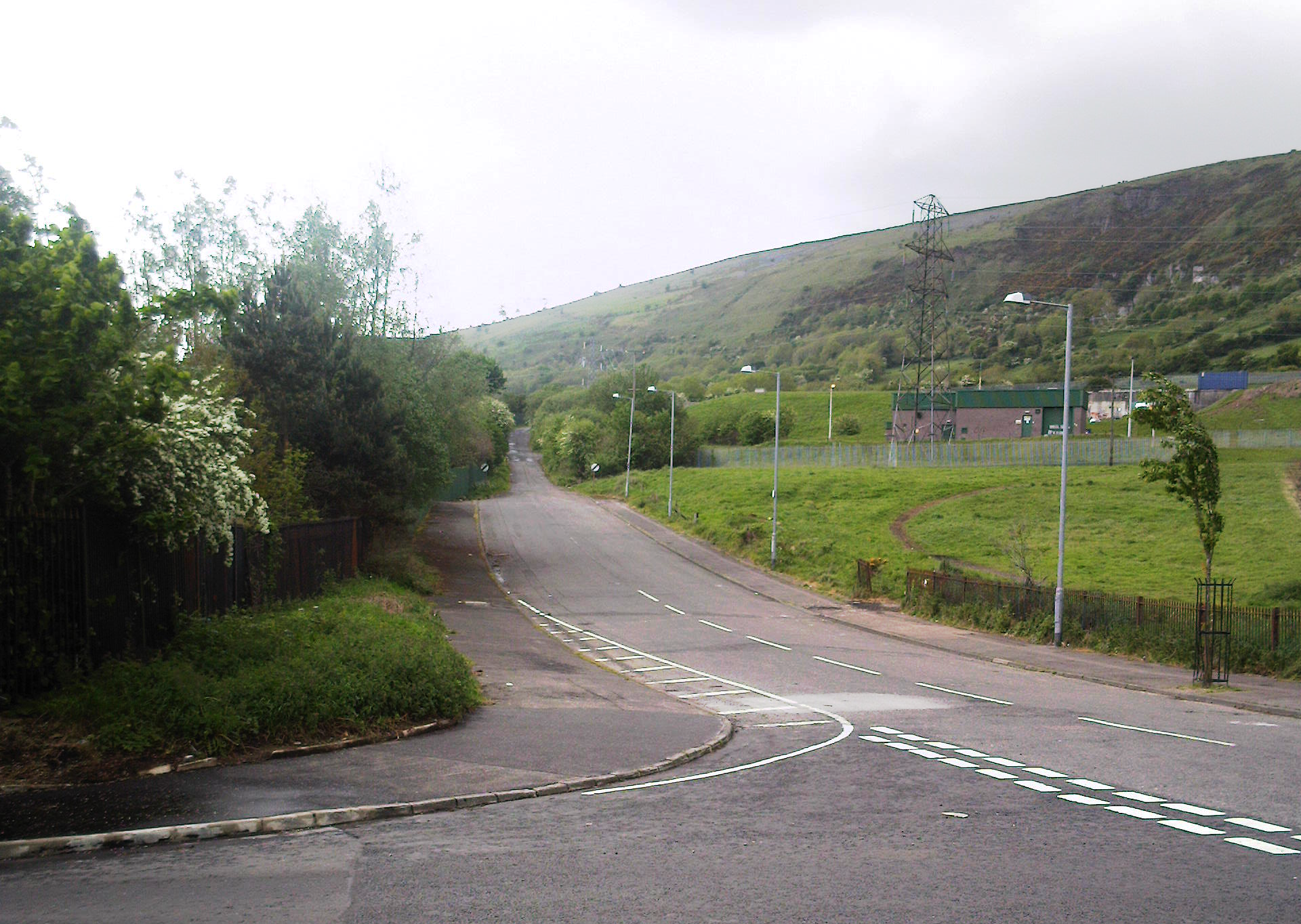 Ballygomartin Road, Belfast